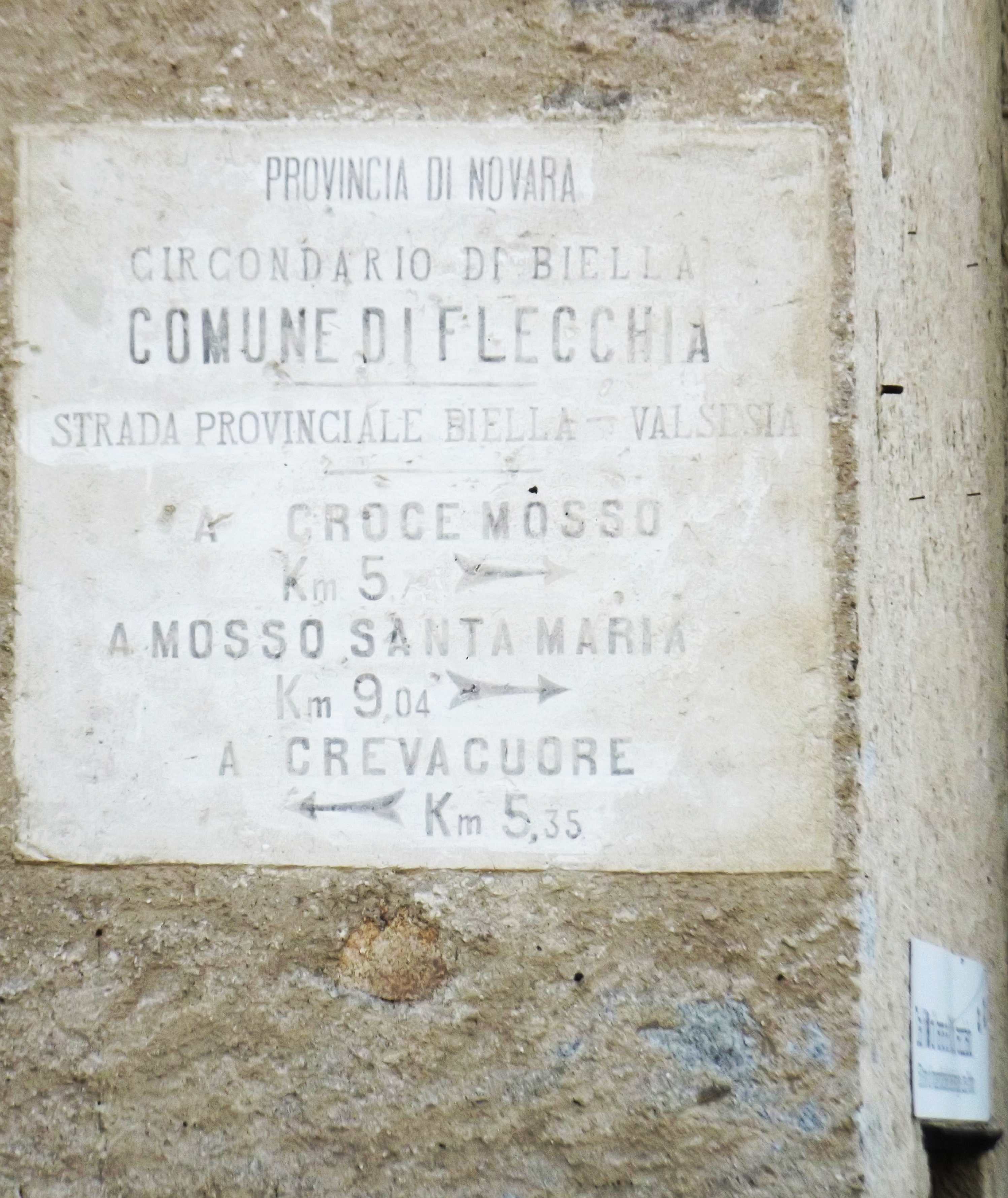 Lanificio Zingone (Pray, BI, Italy): old road signs